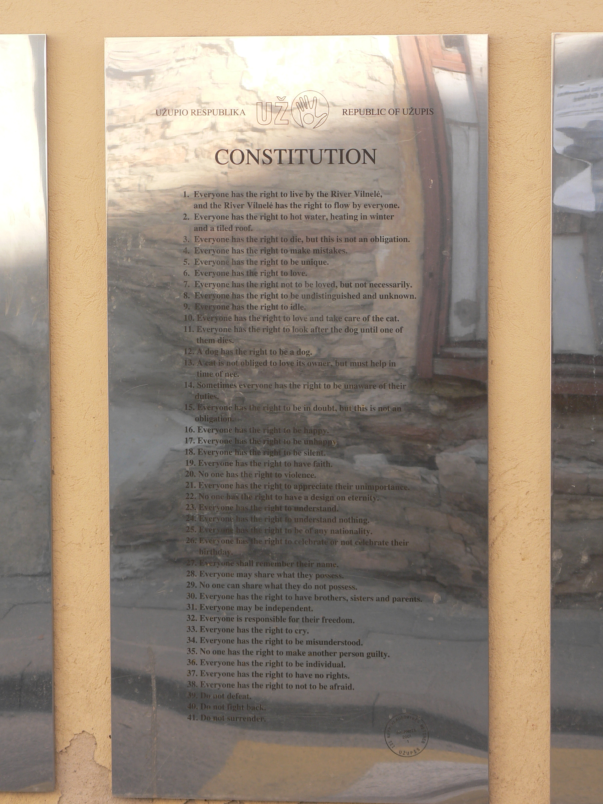 The Republic of Užupis constitution in English.